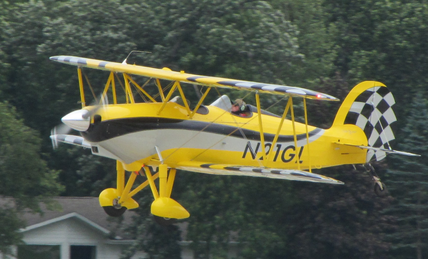 2013 BabyGreatLakes-2T-1A-2